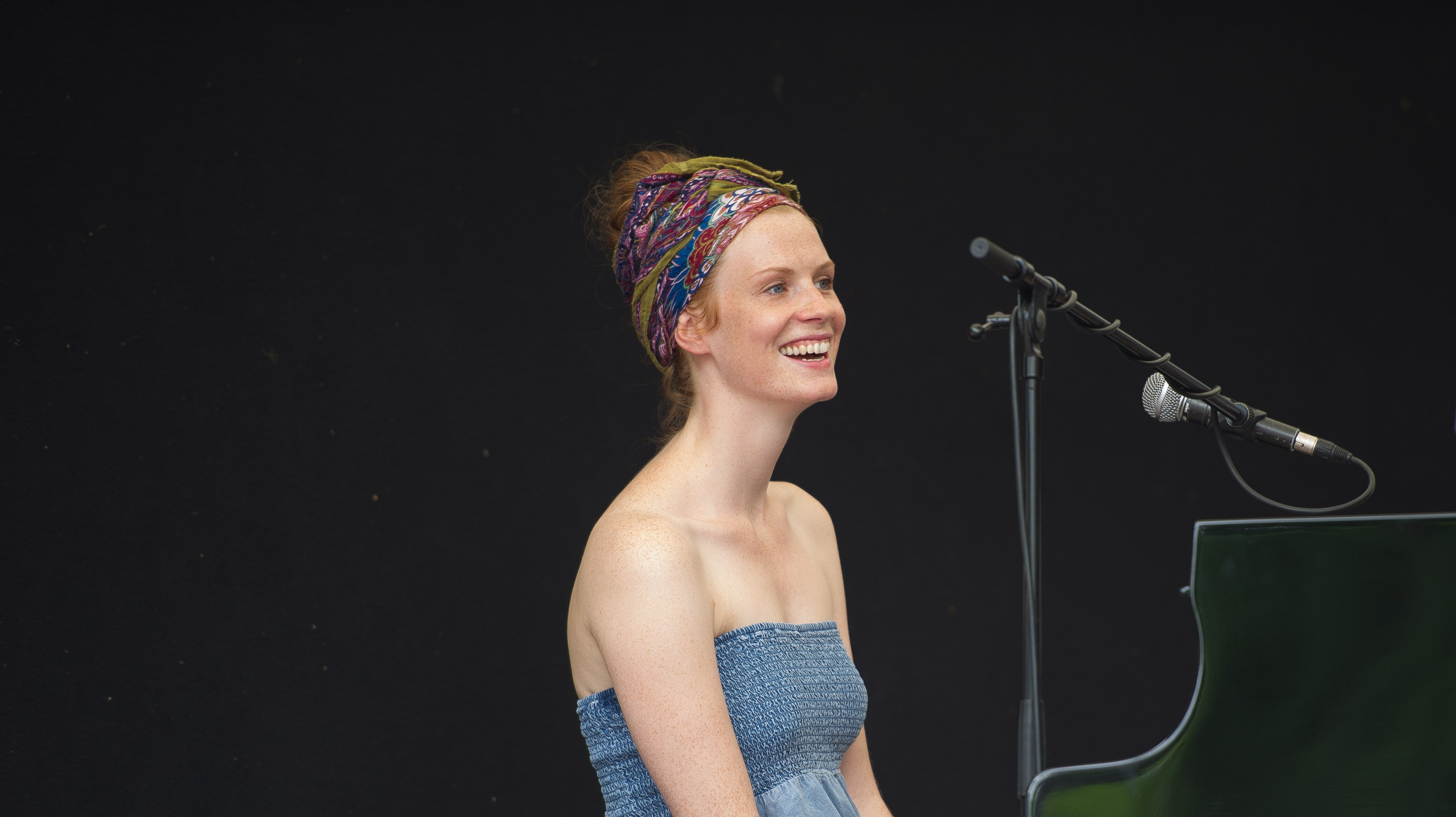 Johanna Borchert (Schneeweiss und Rosenrot) @ Jazz im Museumspark Frankfurt